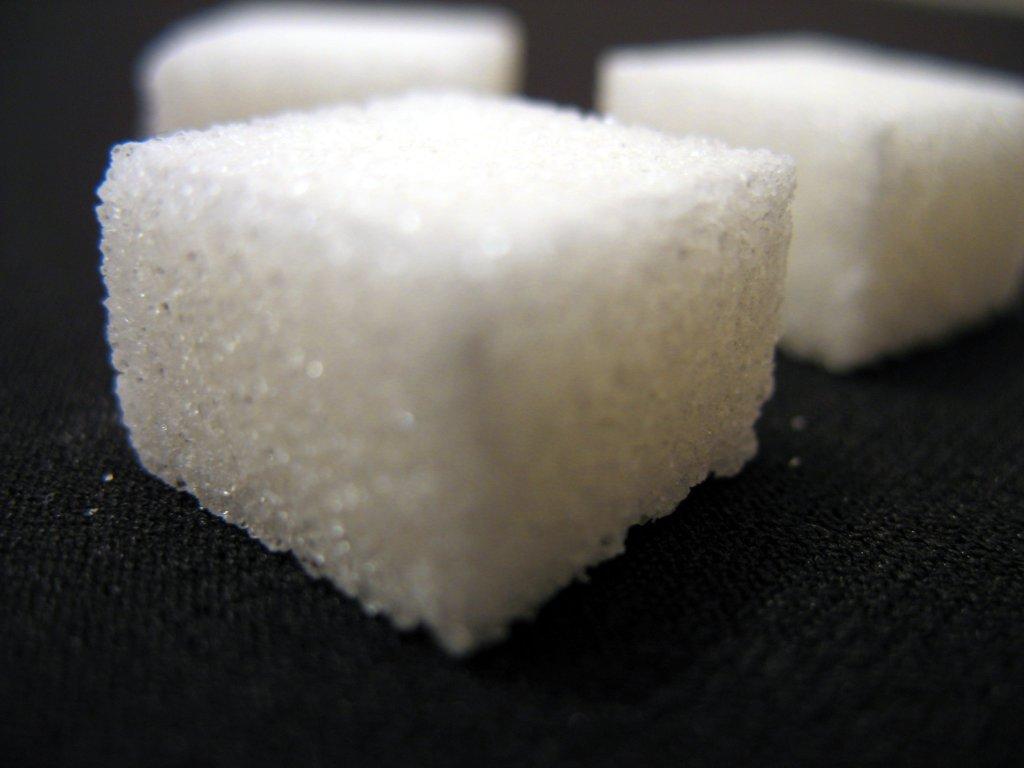 Sugar cubes.